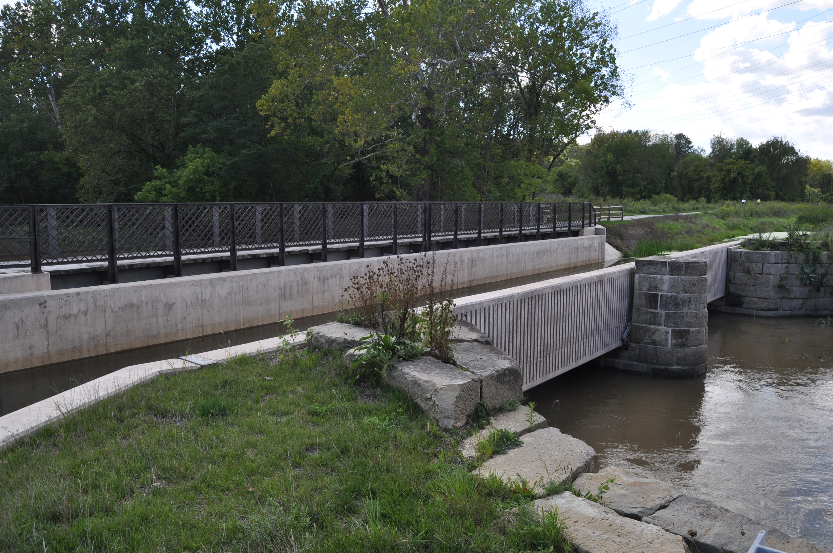 Tinkers Creek Aqueduct